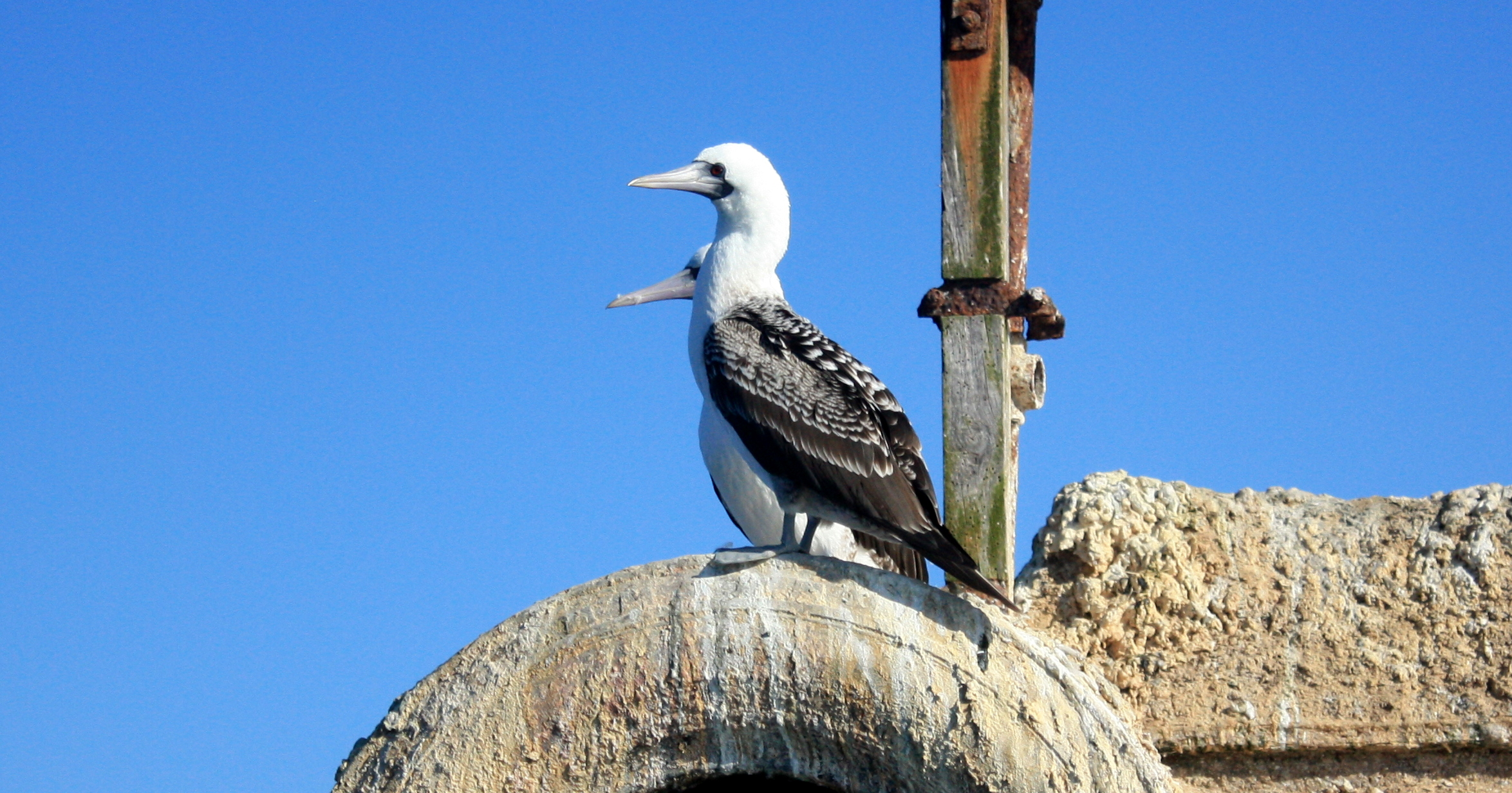 Peruvian boobies (Sula variegata) in Coquimbo, Chile.